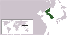 The location of the Korean peninsula.